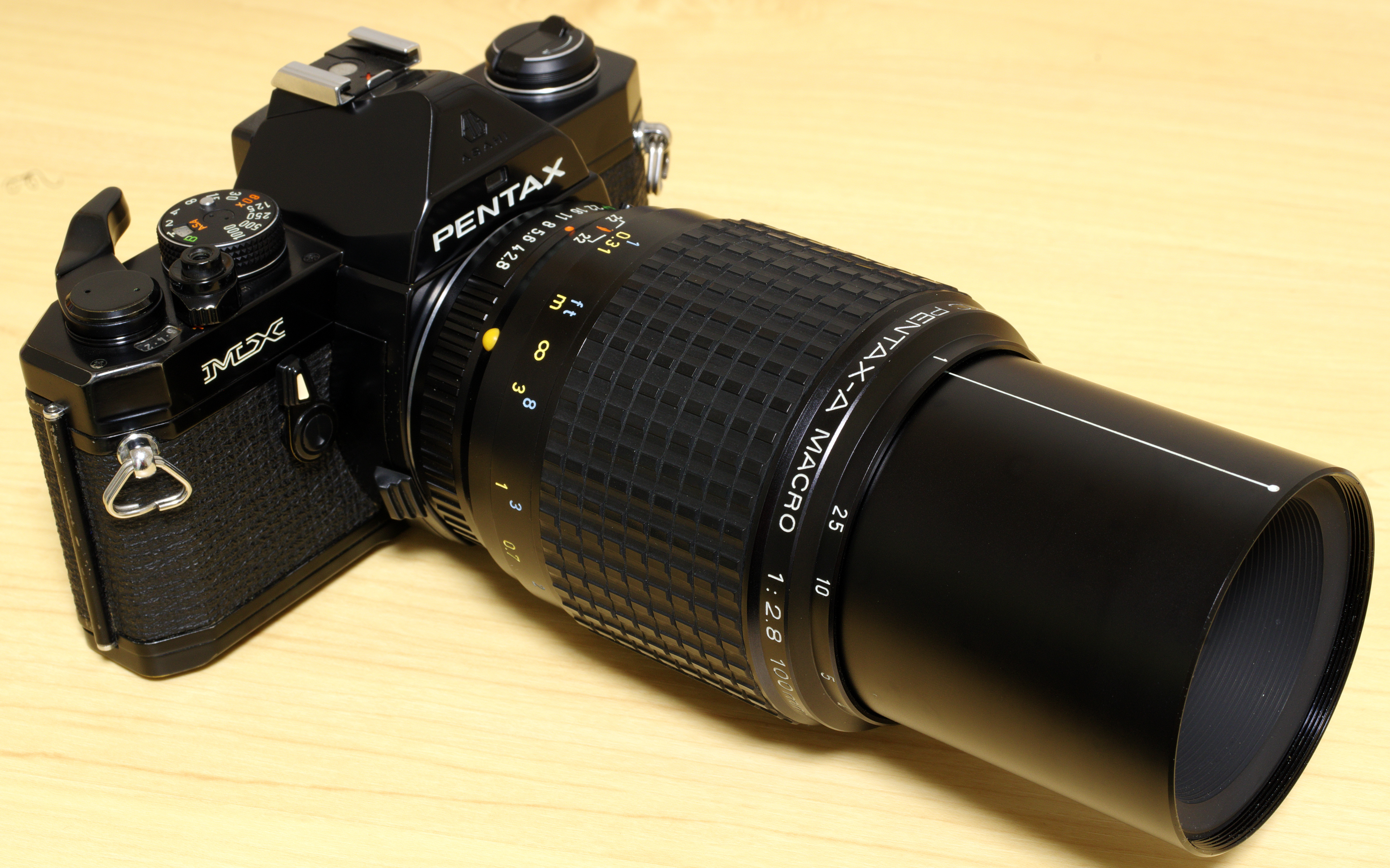 PENTAX MX + smc PENTAX-A MACRO 1:2.8 100mm